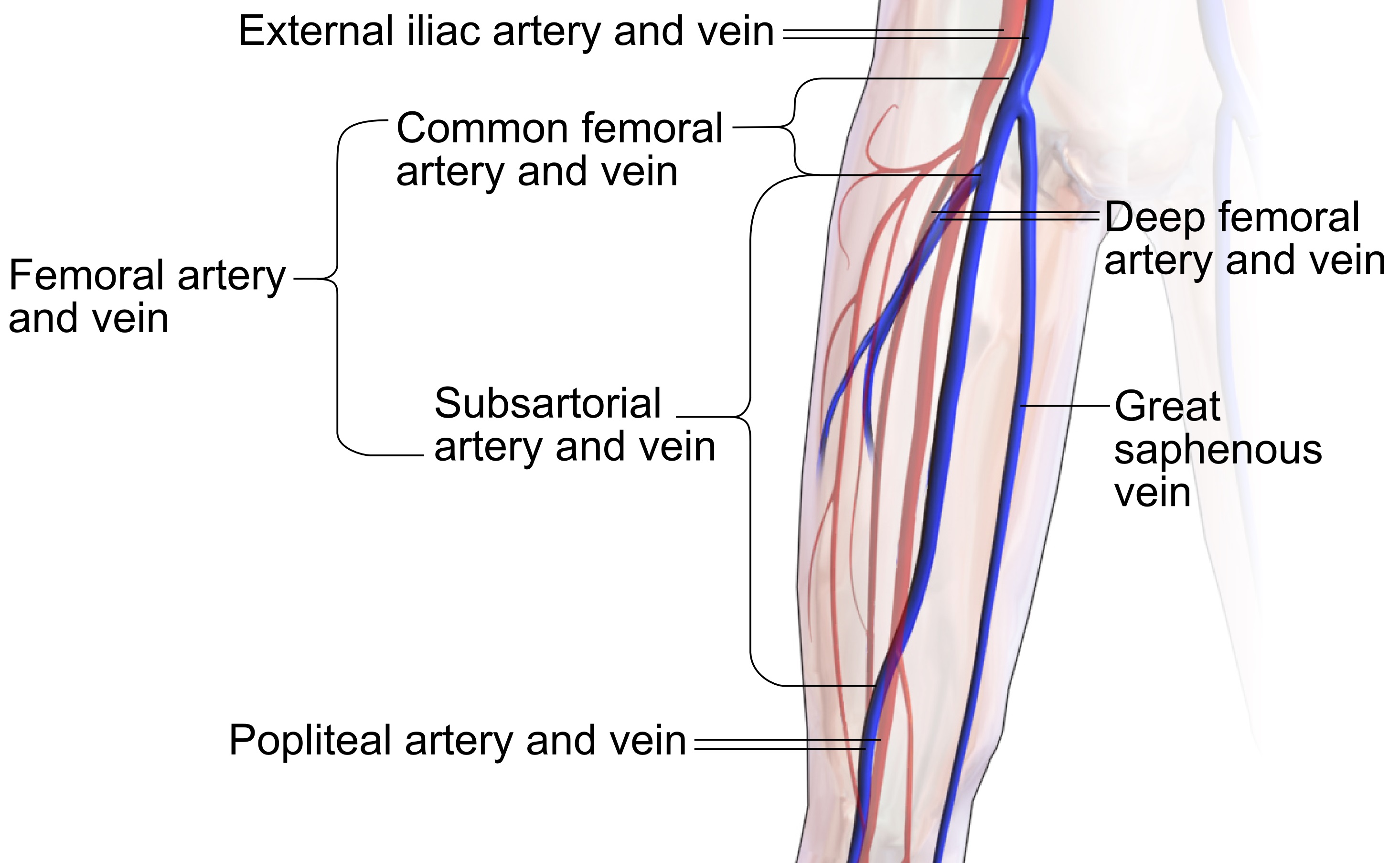 Segments of the femoral artery and femoral vein: The common femoral artery and vein (arteria & vena femoralis communis) proximally to the branching points of the deep femoral artery and vein, respectively. The subsartorial artery and vein (arteria & vena subsartorialis) distally to these branching points. Further information: Femoral artery Femoral vein